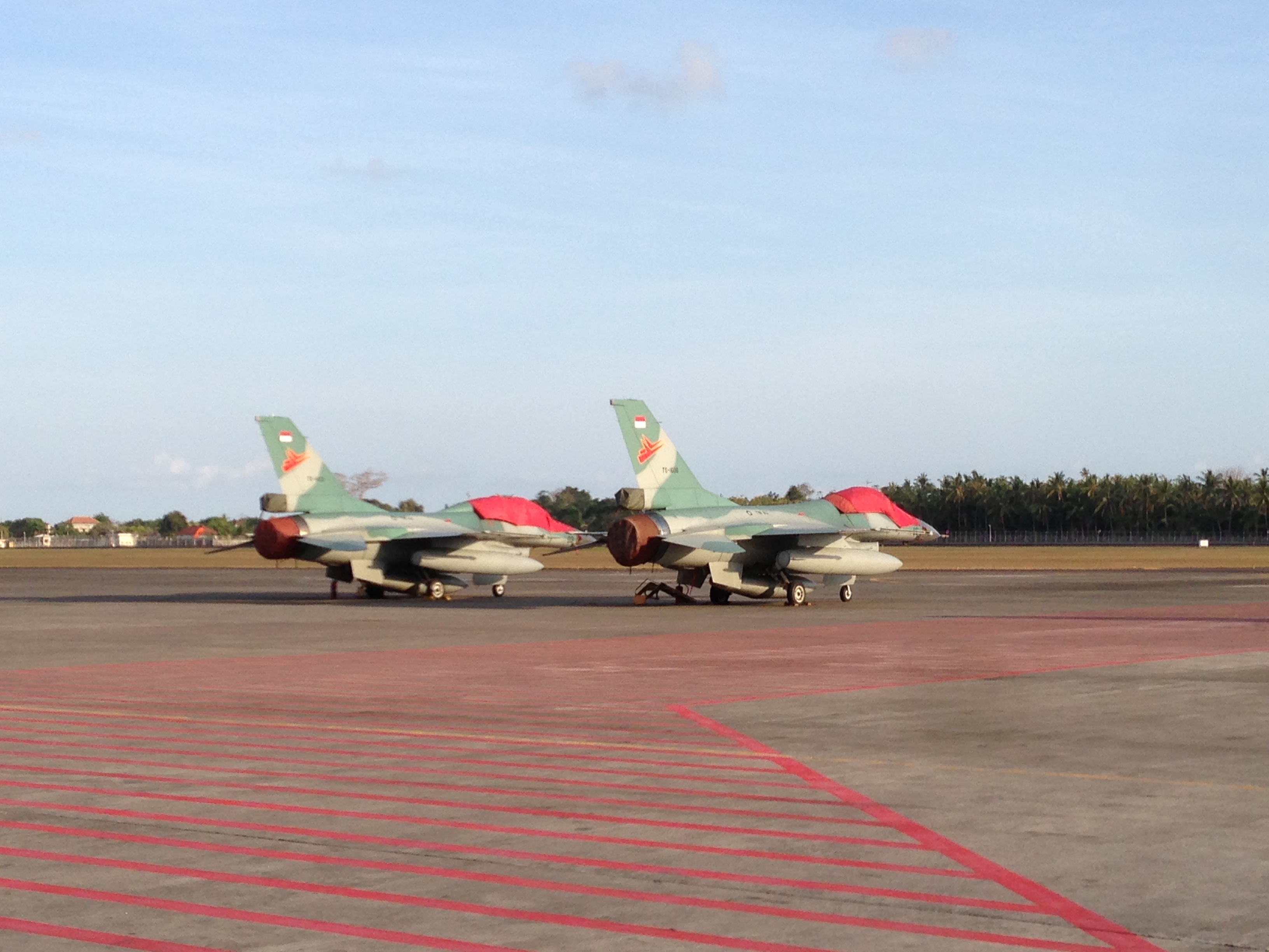 Two F-16 of the Indonesian Air Force in Ngurah Rai Airport (island of Bali)